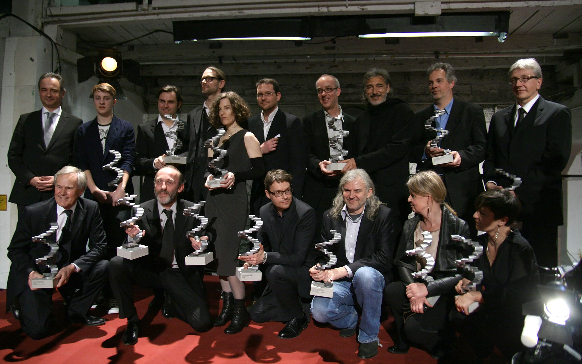 Winners of the Austrian Film Awards 2012 (Vienna).